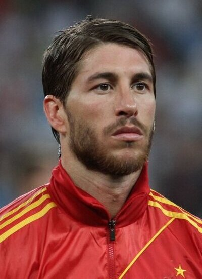 Sergio Ramos at Euro 2012 match Spain-France